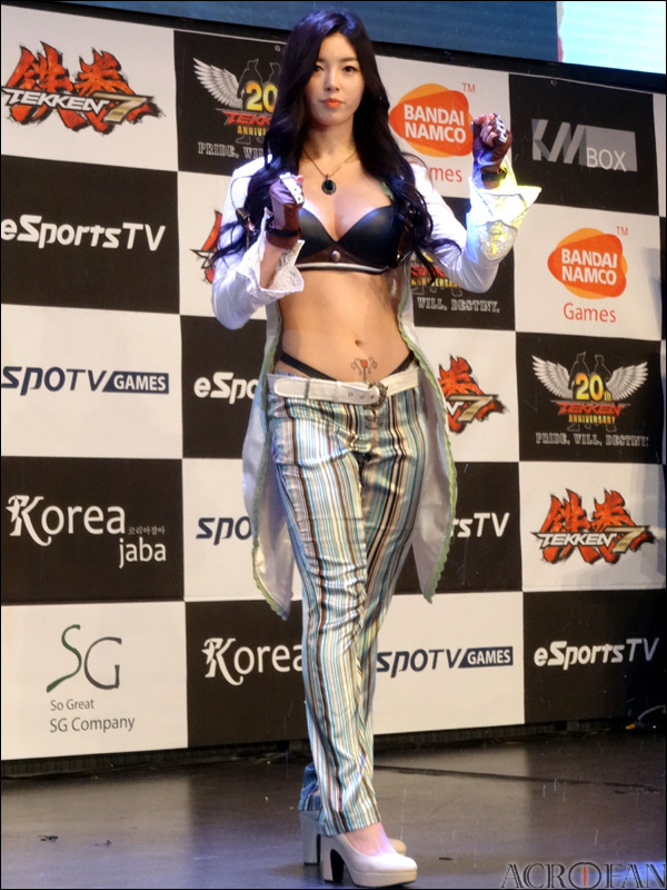 Tekken 7 Katarina Alves cosplay